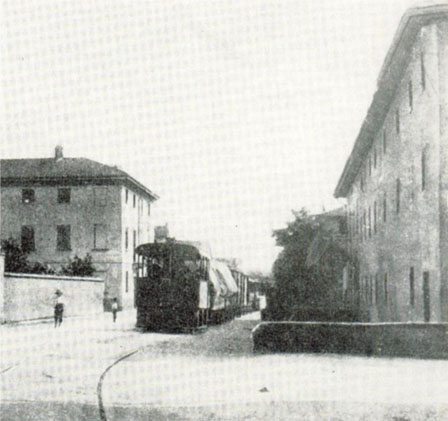 Romentino, steam tramway